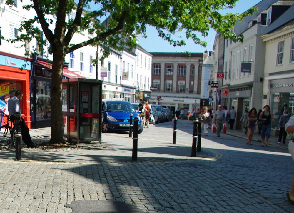 King Street, Truro, England